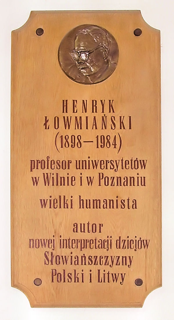 historican from Polish, commemorative plaque in building of Historic Faculty of Adam Mickiewicz Uniwersity in Poznań